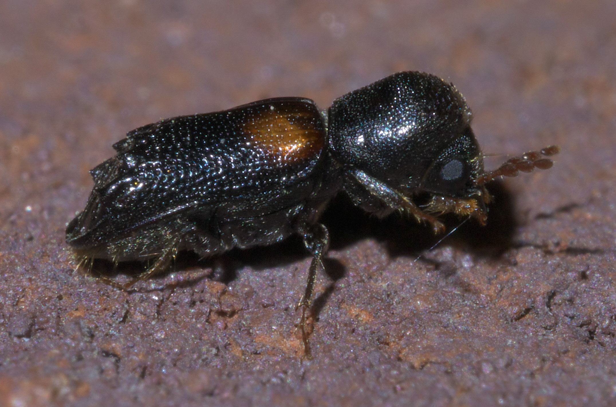 Xylobiops basilaris, Red-shouldered Bostrichid, Size: 5.5 mm, ID Confidence: 96